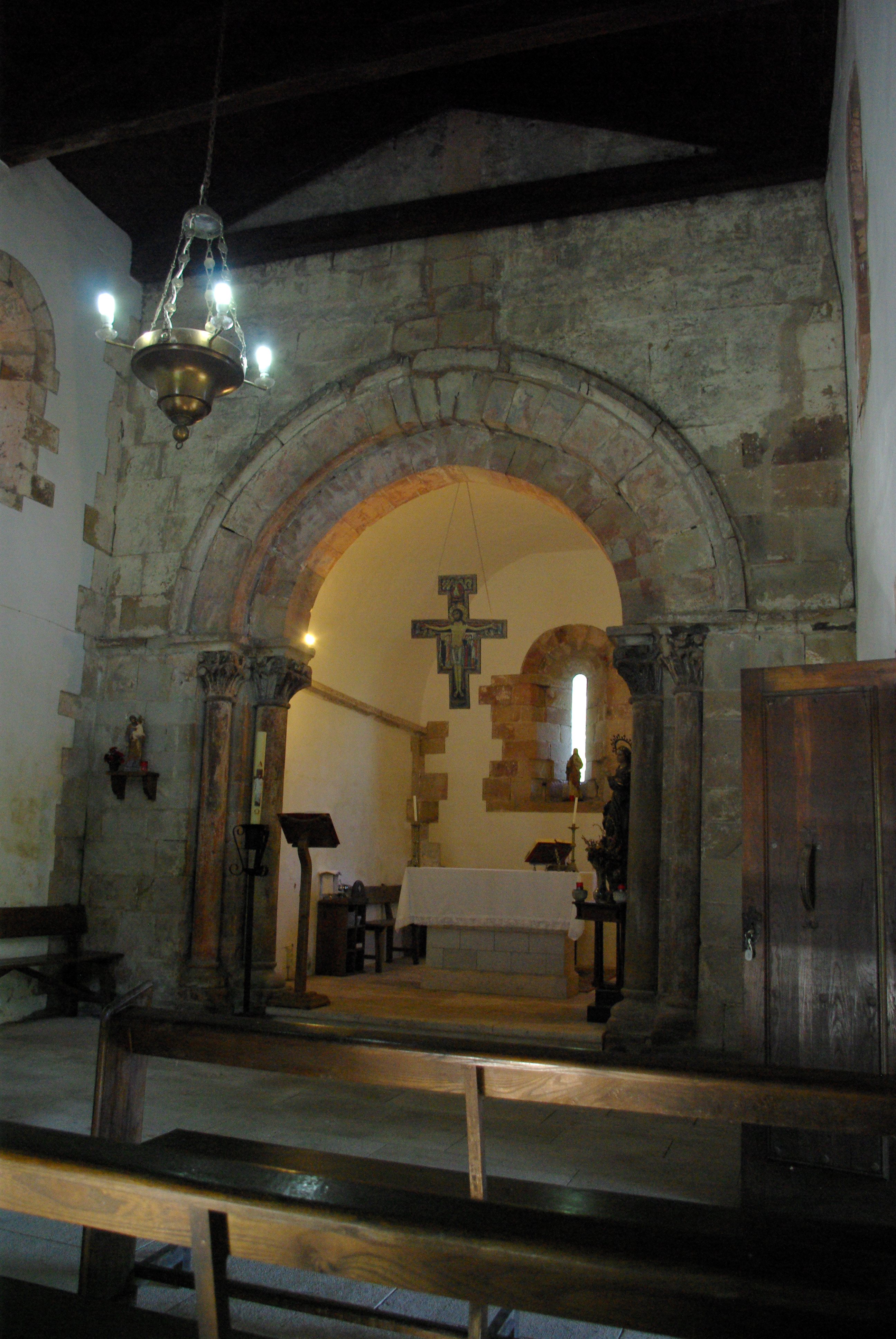 Saint Mary church in Sariegomuerto, Villaviciosa (Asturias, Spain).